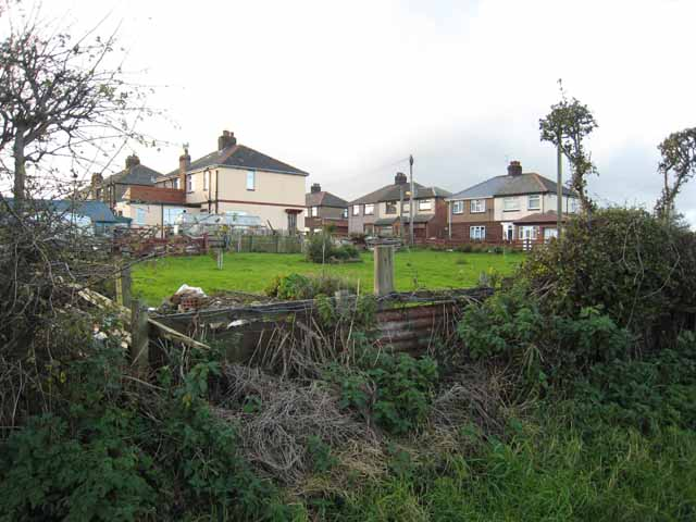 Burns Close, Hart A small residential cul de sac off Butts Lane, stuck out in the fields.